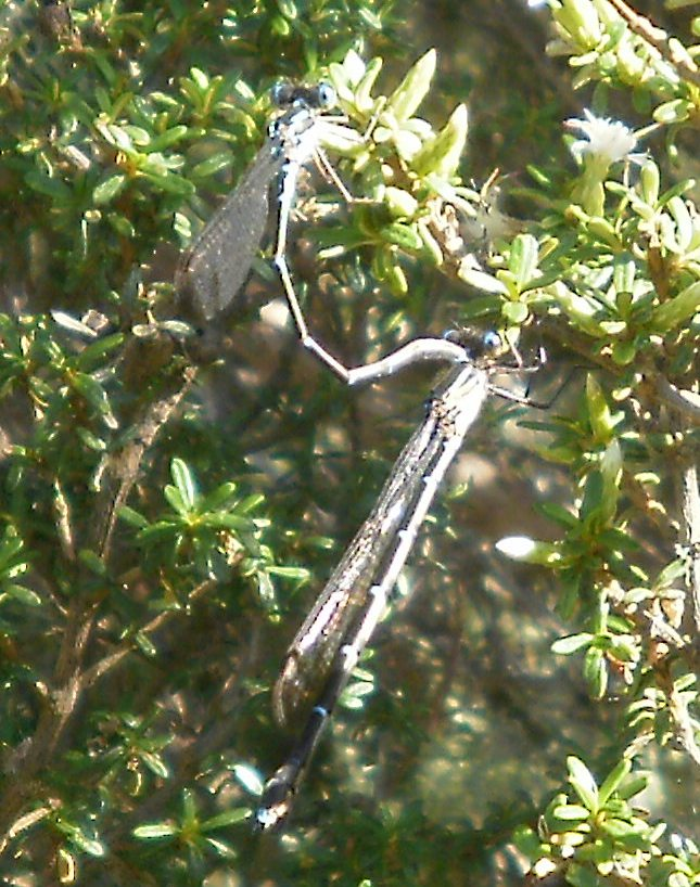 Mating pair of austrolestes colensonis (kekewai) damselfly mating. Photographed at Pauatahanui Wildlife Reserve, Porirua, Wellington